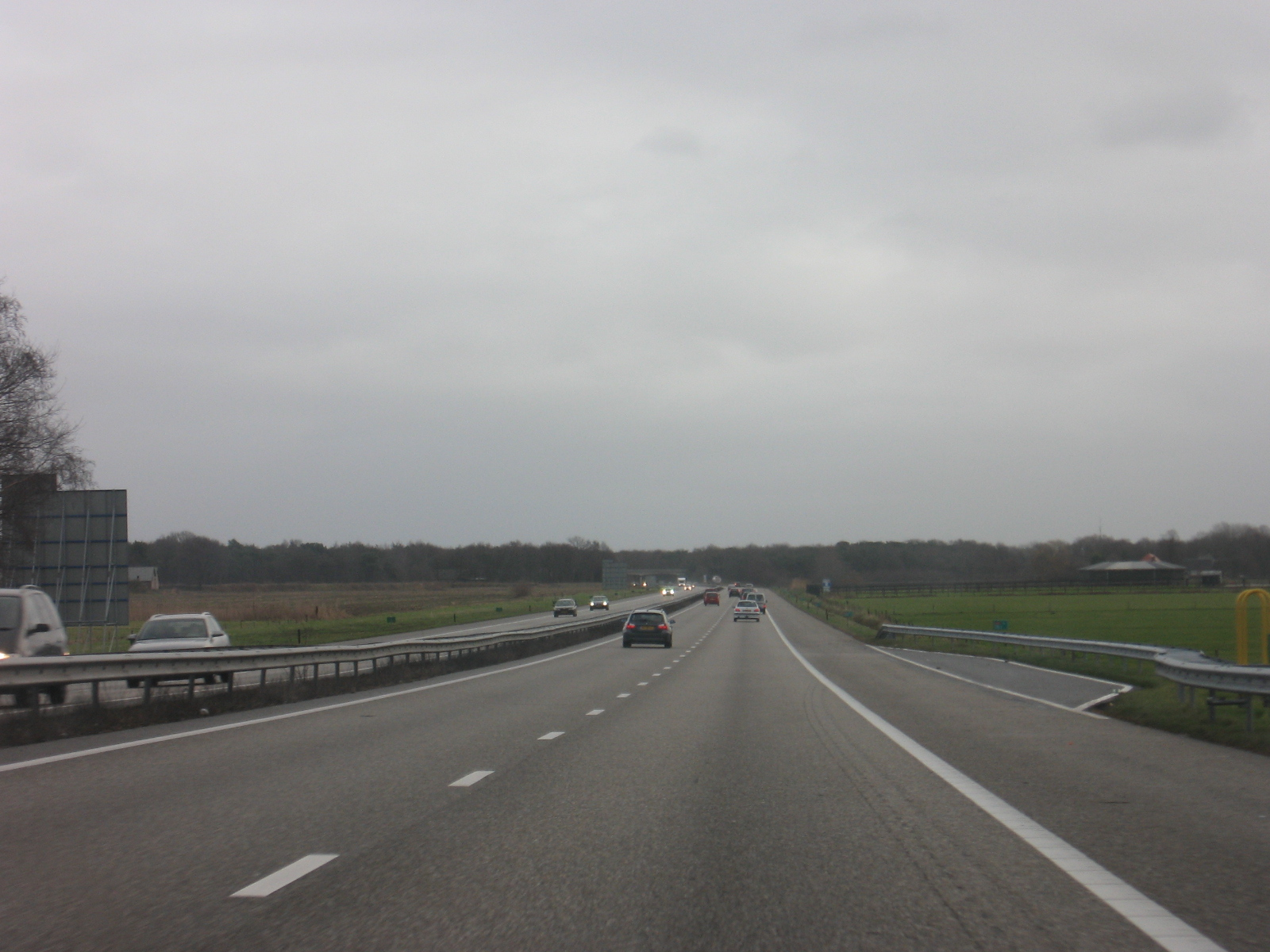 A67 near Maasbree